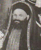 110th Pope & Patriarch of Alexandria